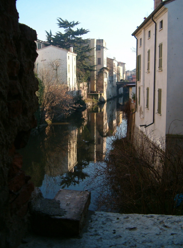 Mantova, Italy - View from a bridge. Picture taken by Marcok of Wikipedia on January 7 2006.